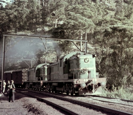 Two 40-class on a northbound goods train near Wondabyne